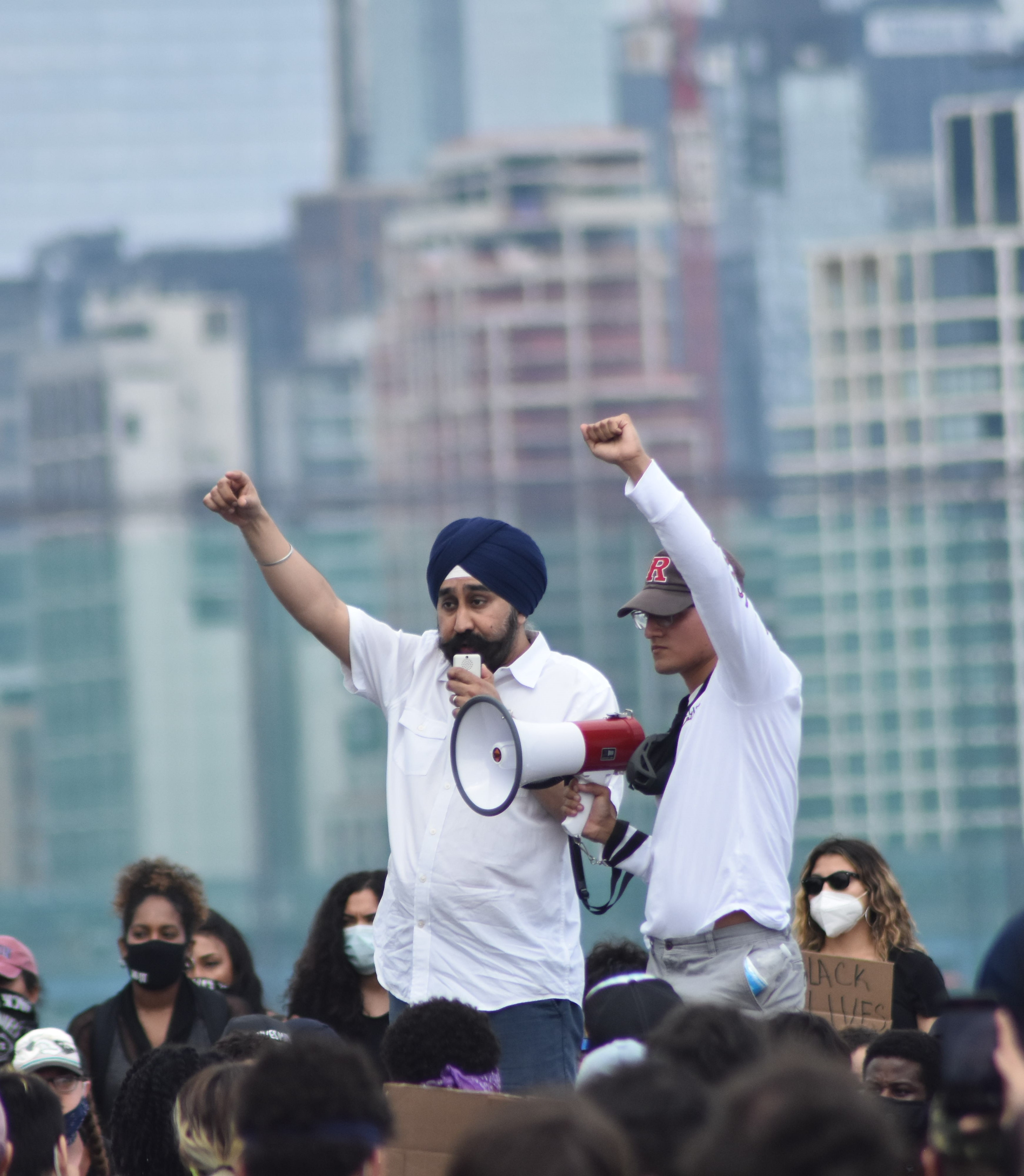 Hoboken mayor Ravinder Bhalla during the demonstration in Pier A Park, Hoboken